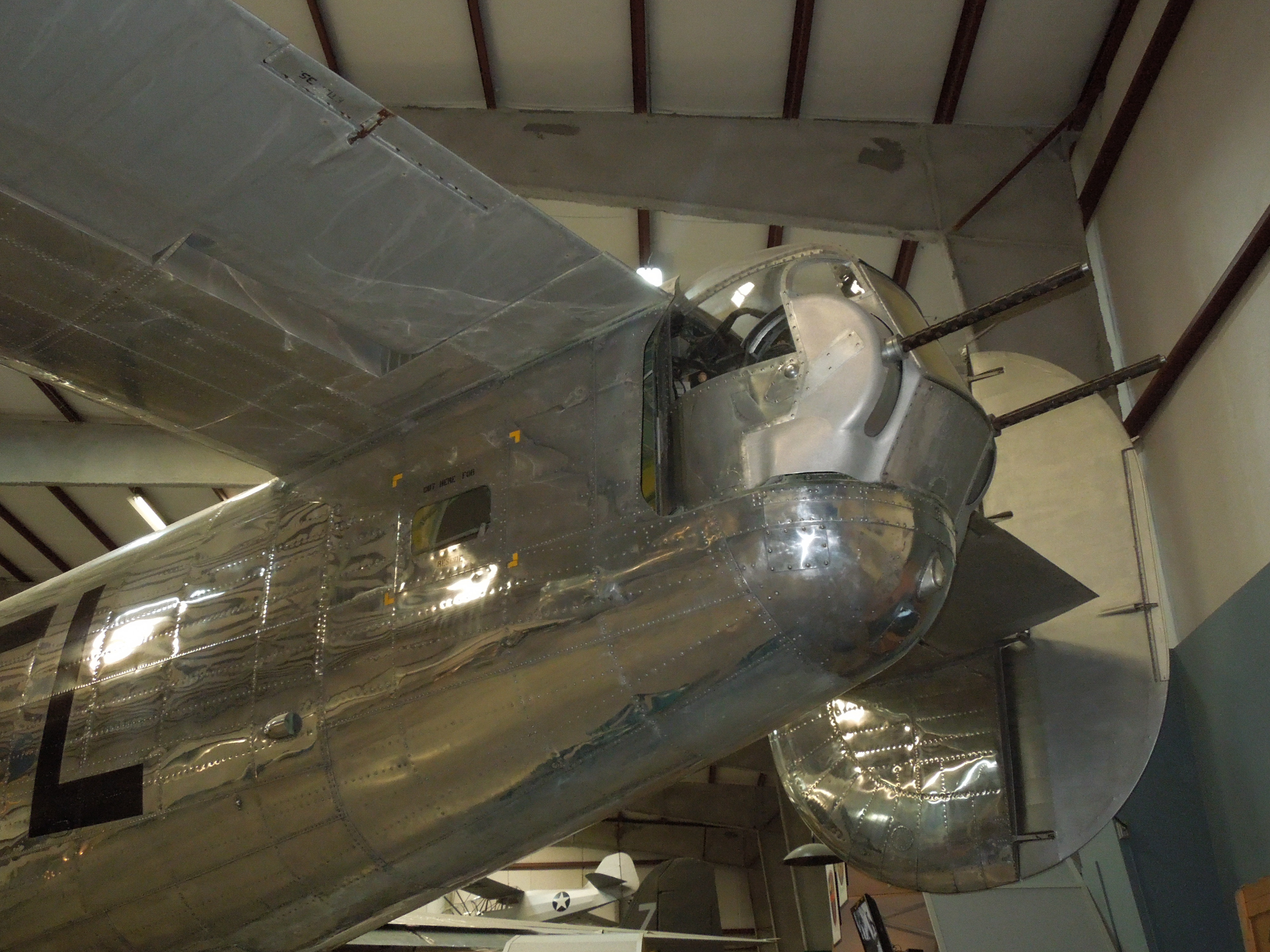 Pima Air & Space Museum